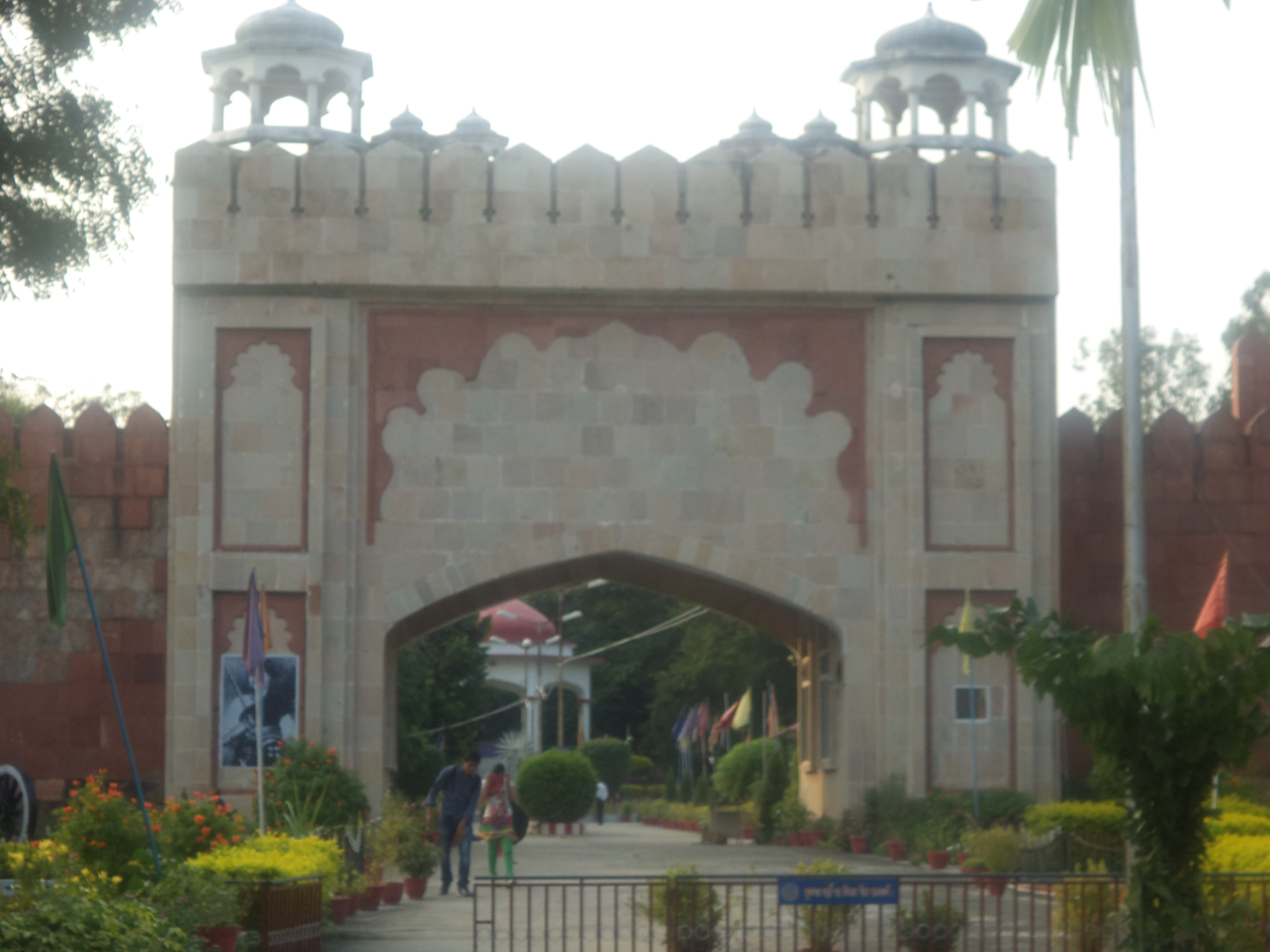 This is memorial of freedom fighter Nana Sahib situated at Kanpur, UP